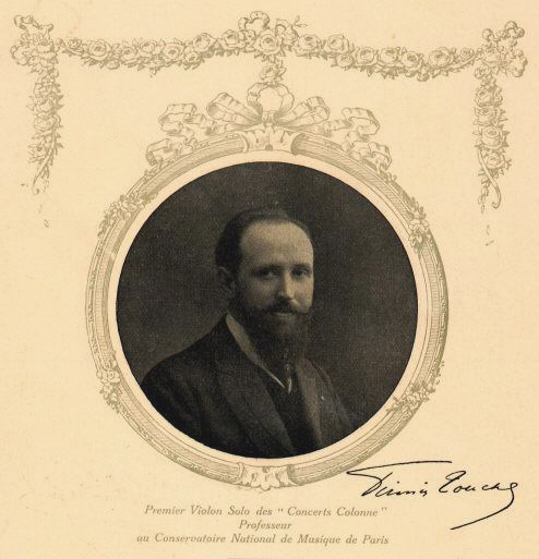 Signed picture of French violinist Firmin Touche (1875–1957)